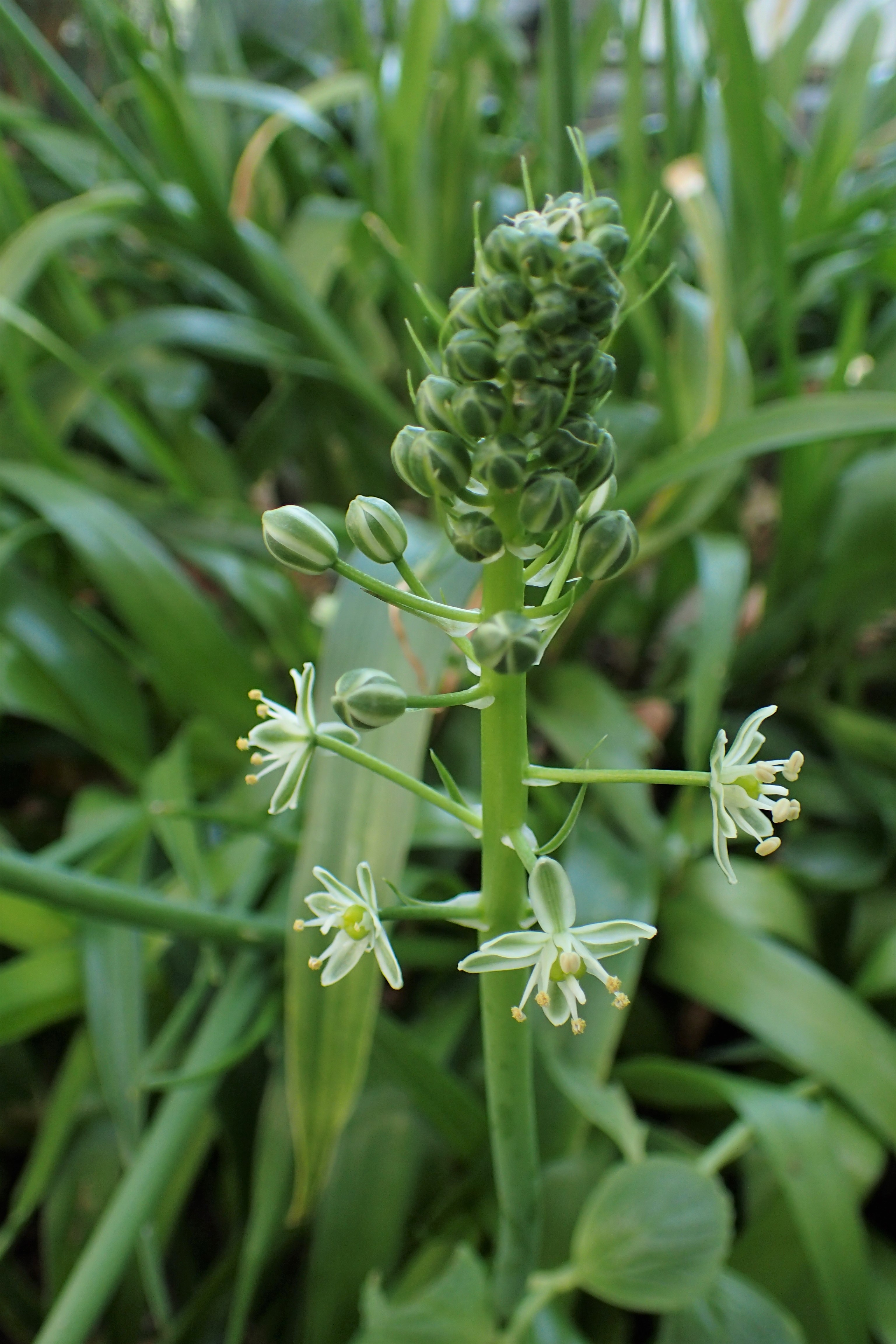 Albuca bracteata in the Botanischer Garten, Berlin-Dahlem